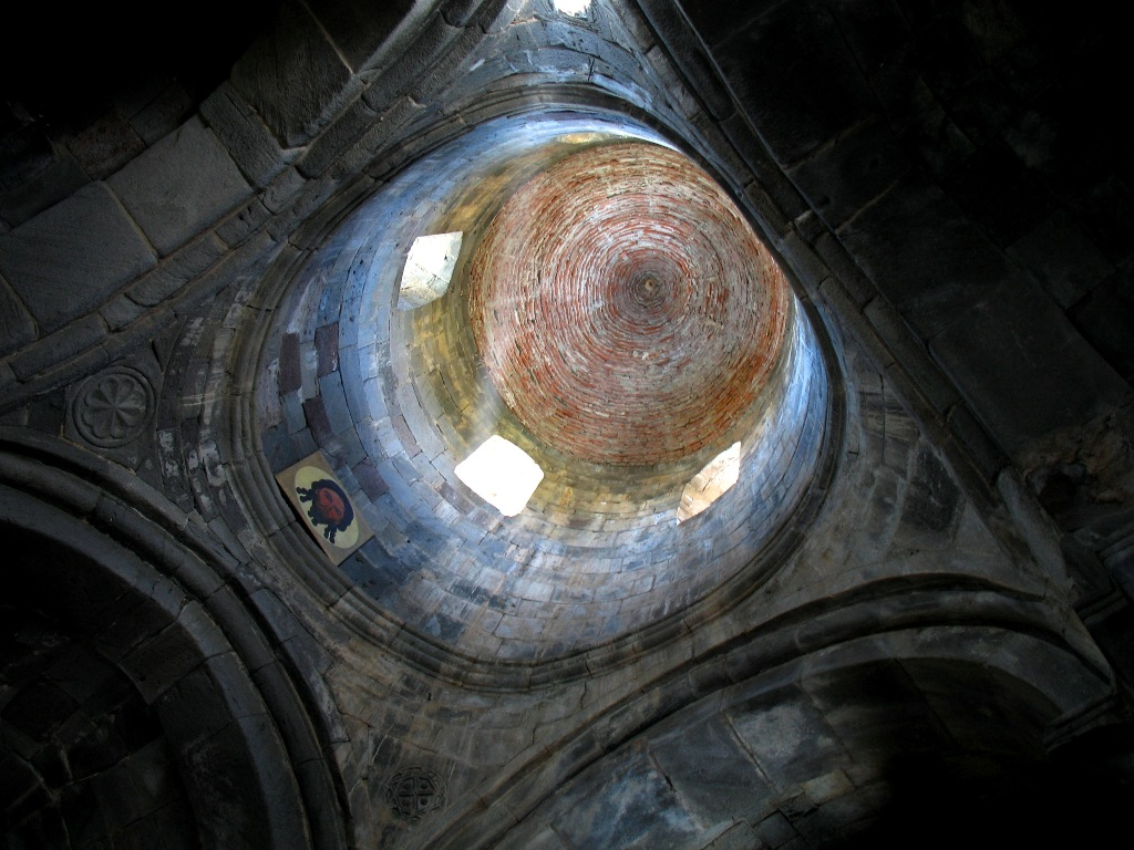 Gergeti Trinity Church